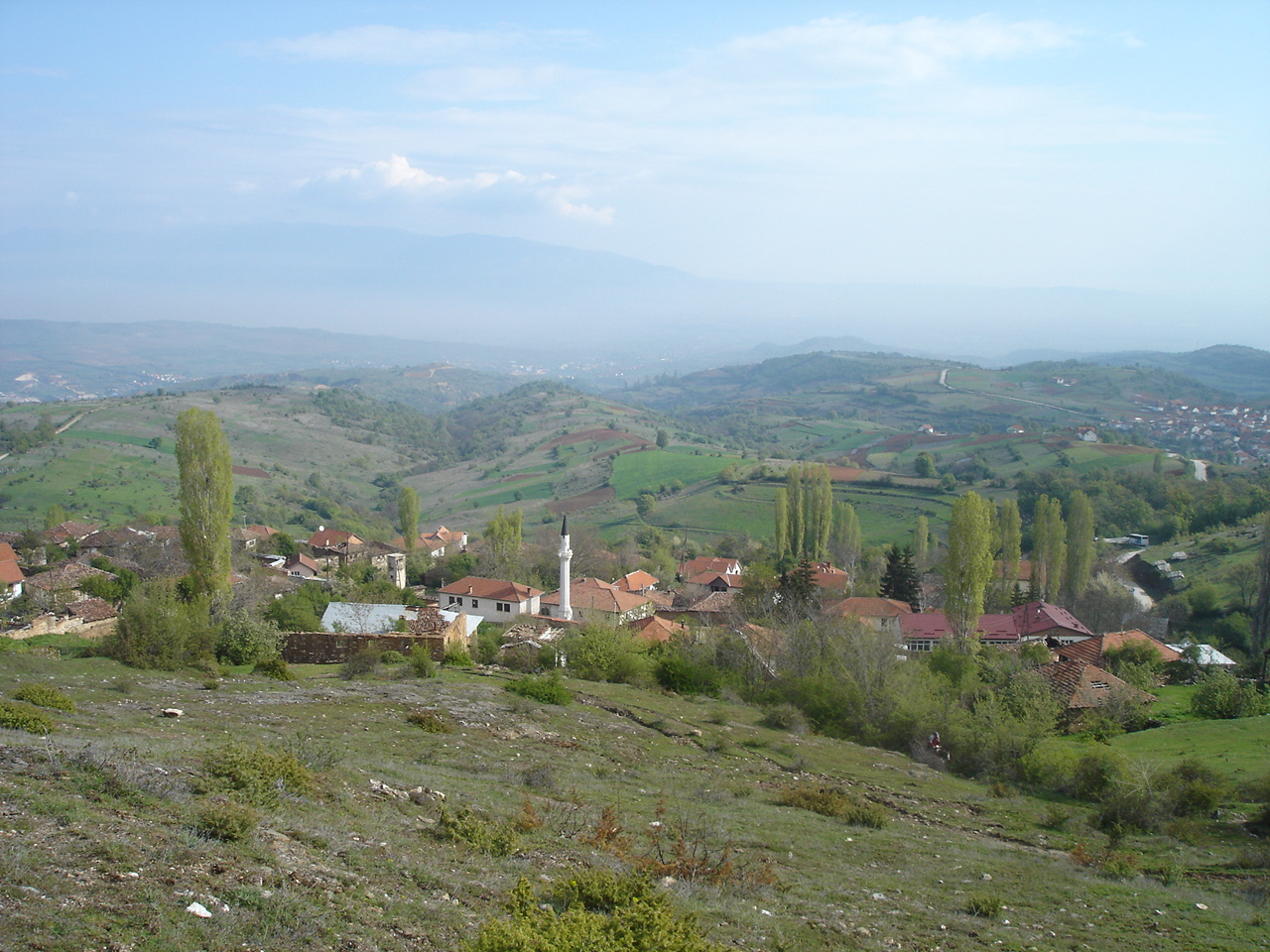 village of Gorno Kolichani, Macedonia